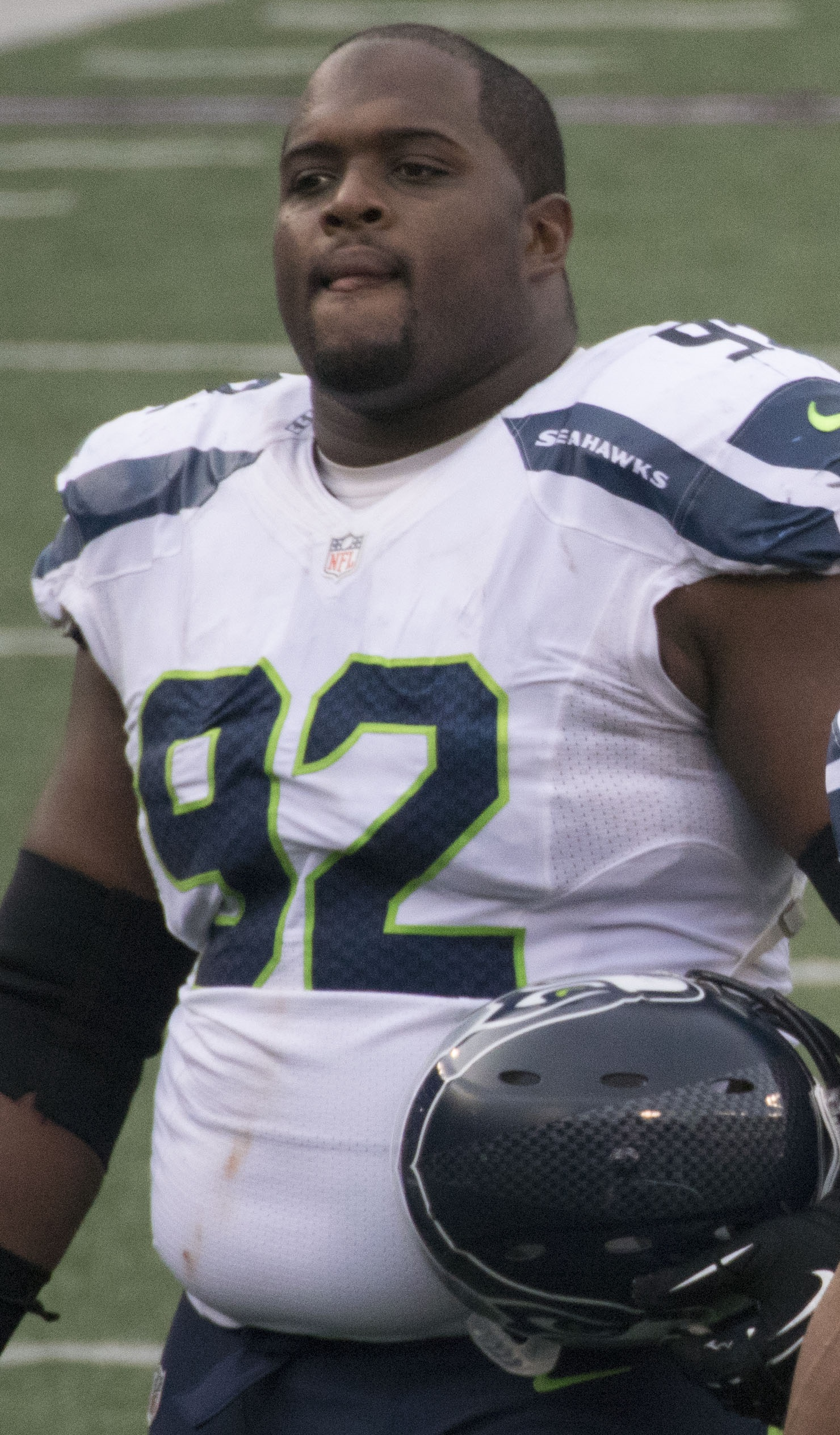 Seahawks at Ravens 12/13/15